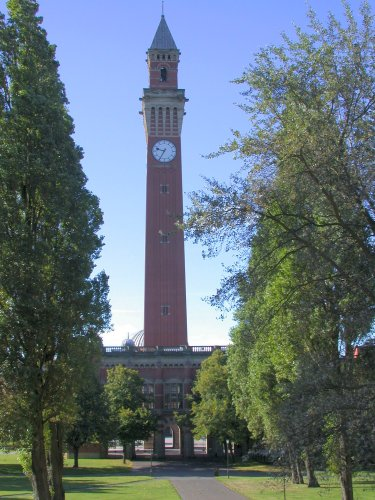 Birmingham University Chamberlain Tower Looking towards the Chamberlain Tower from the Main Library